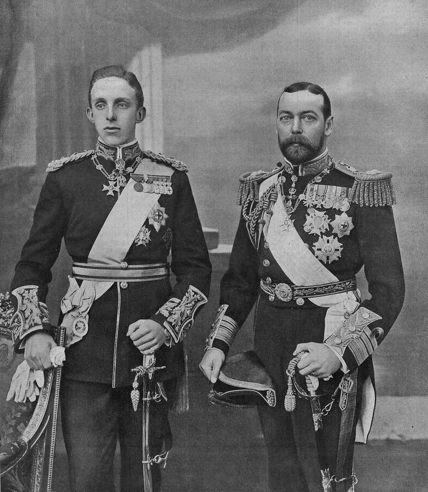 Photograph of King Alfonso XIII of Spain and King George V of the United Kingdom